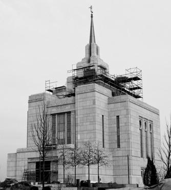 Kyiv Ukraine Temple of The Church of Jesus Christ of Latter-day Saints nearing completion.